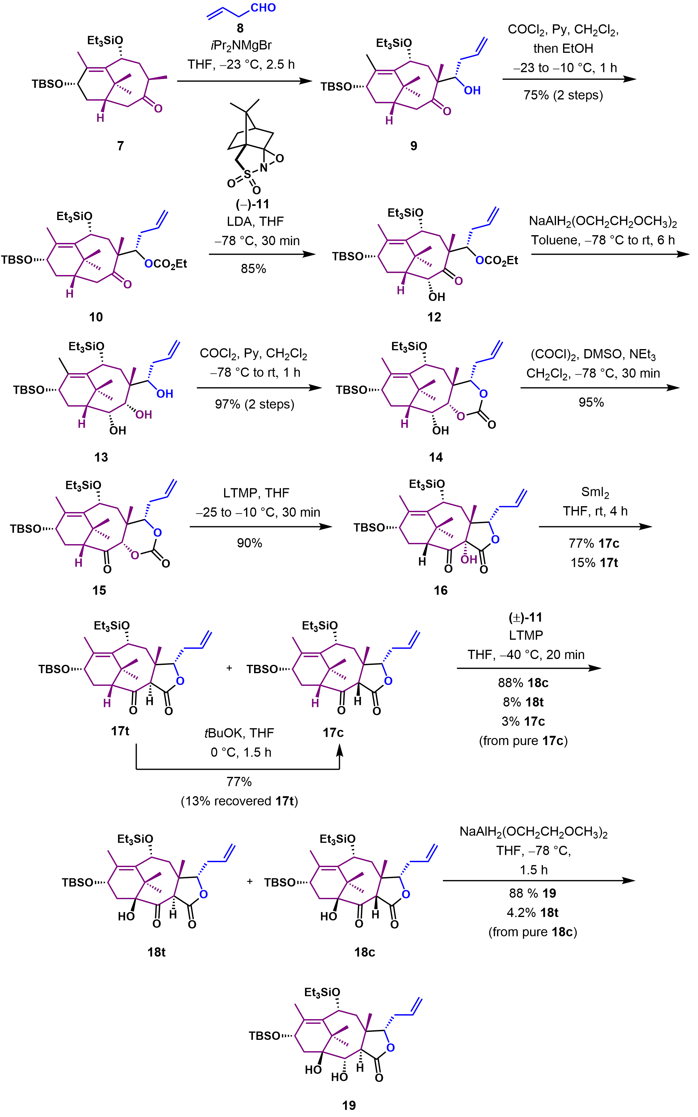 Part one of the synthesis of the C ring system.